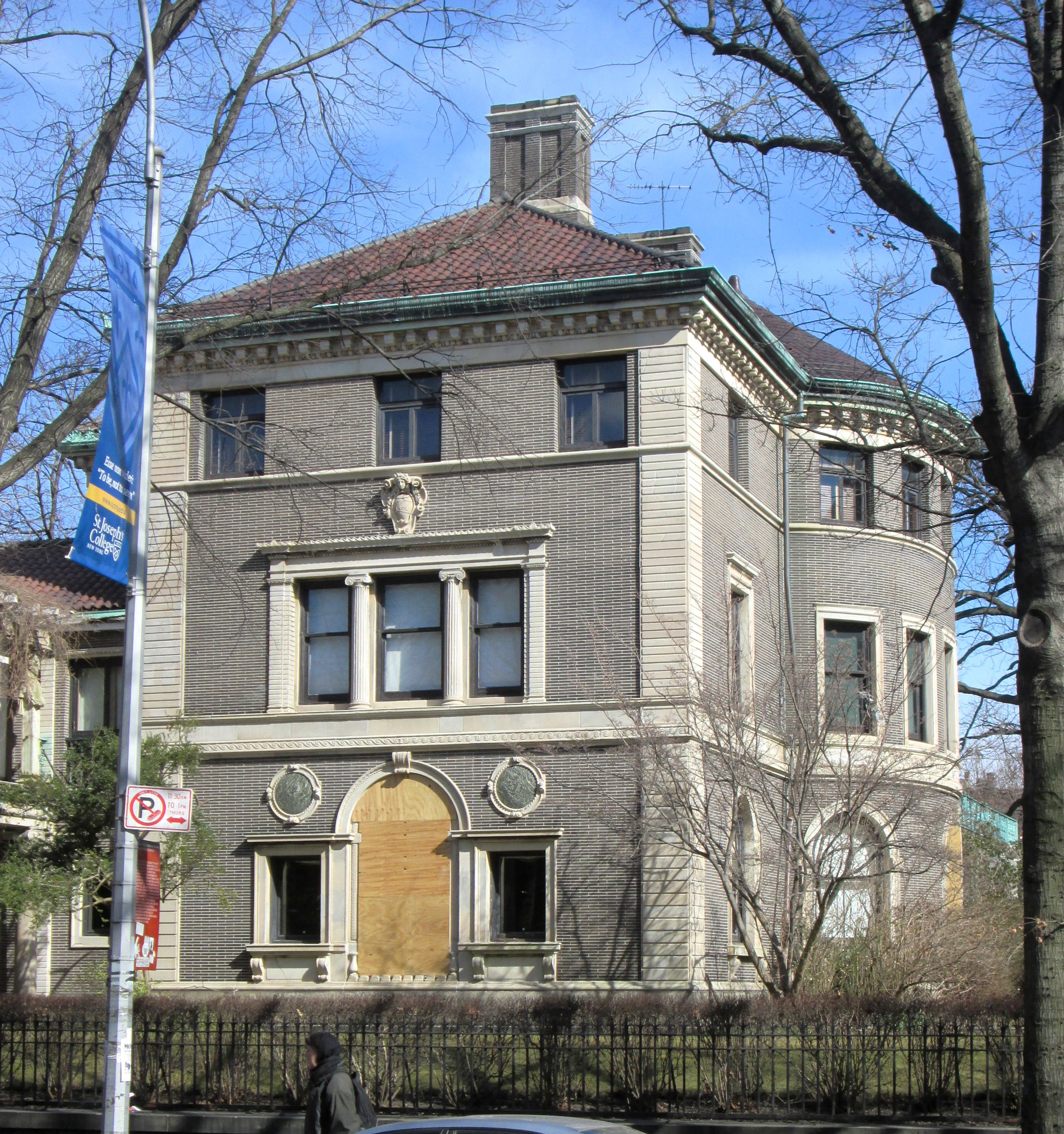 229 Clinton Avenue between Dekalb and Willoughby Avenues in the Clinton Hill neighborhood of Brooklyn, New York City was built in 1895 as the residence of Frederic B. Pratt, a son of Standard Oil magnate Charles Pratt, and was designed by Babb, Cook & Willard in a combination of the Georgian and Northern Italian Renaissance Revival styles. It is now the Caroline Ladd Pratt House of the Pratt Institute and is used as a residence for foreign students. The building is entered through a two-story stoa or pergola which was built to hide the side of the building next door. It has six Ionic columns and six caryatids and atlantes supporting a trellis on the second floor. The building is located within the Clinton Hill Historic District. (Source: AIA Guide to NYC (5th ed.) and "Clinton Hill Historic District Designation Report")